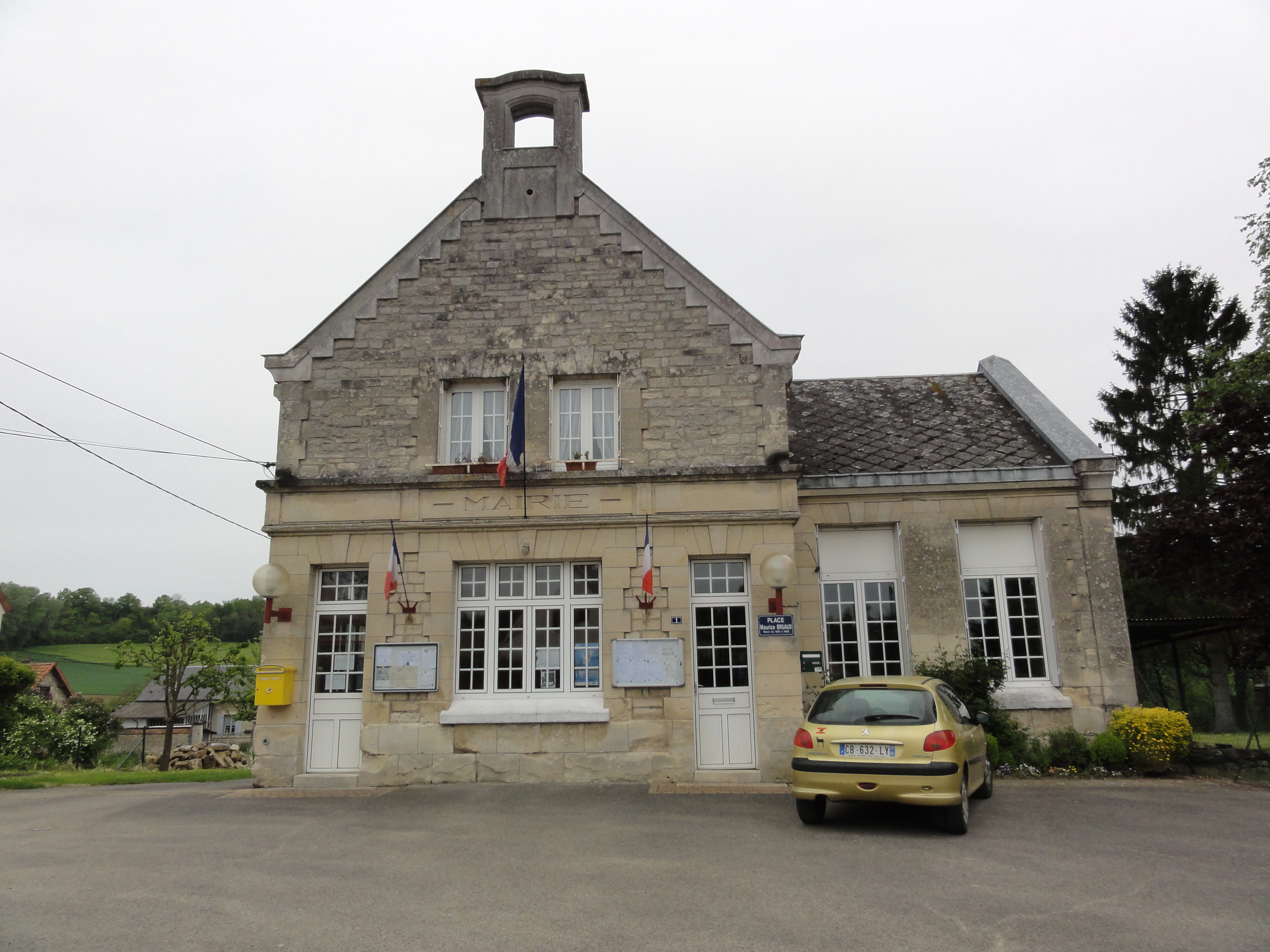 Chermizy-Ailles (Aisne) mairie